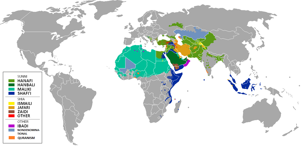 Derived from File:Madhhab_Map3.png (Madhhab)